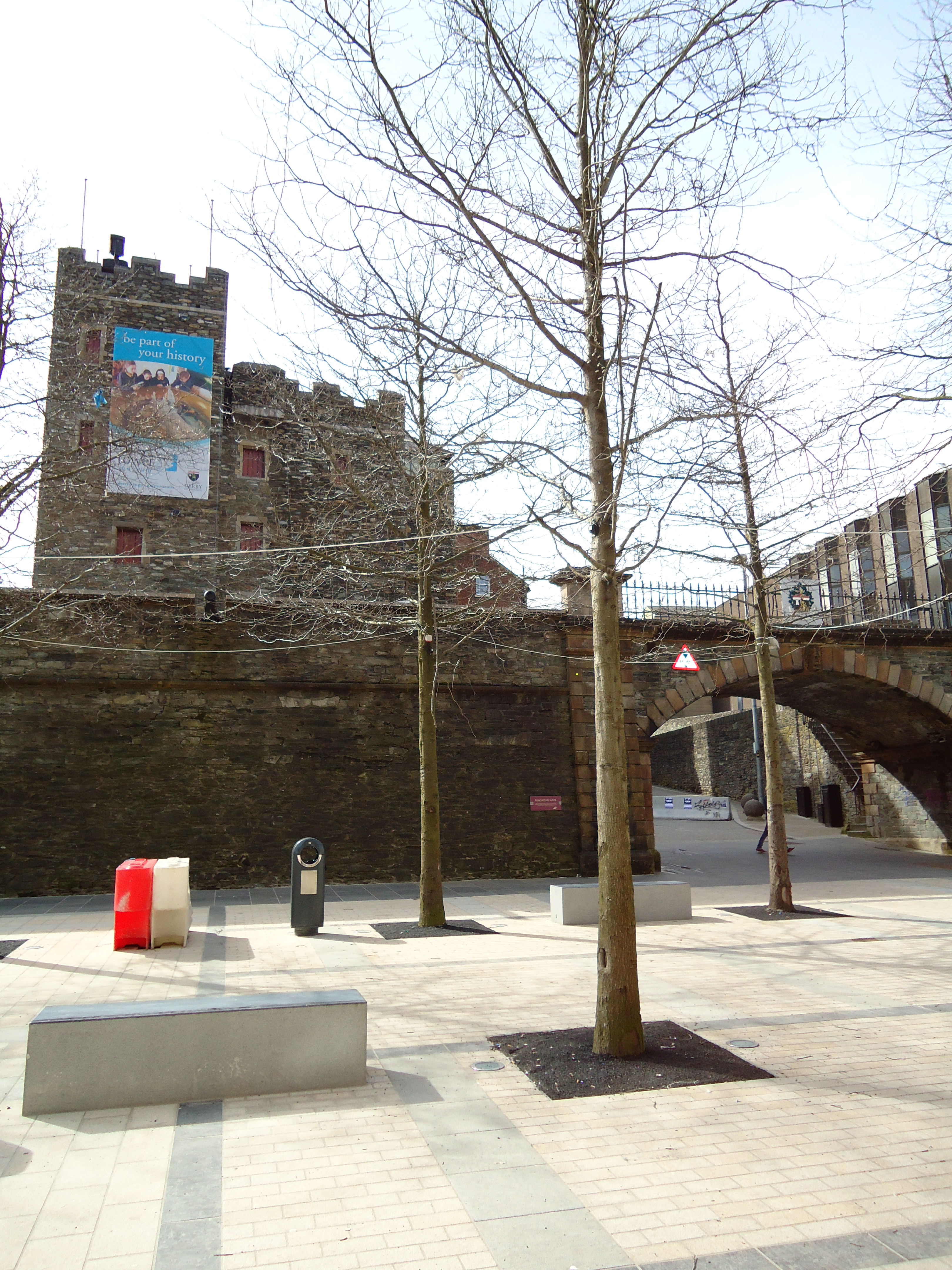 Derry Walls with Tower Museum behind.